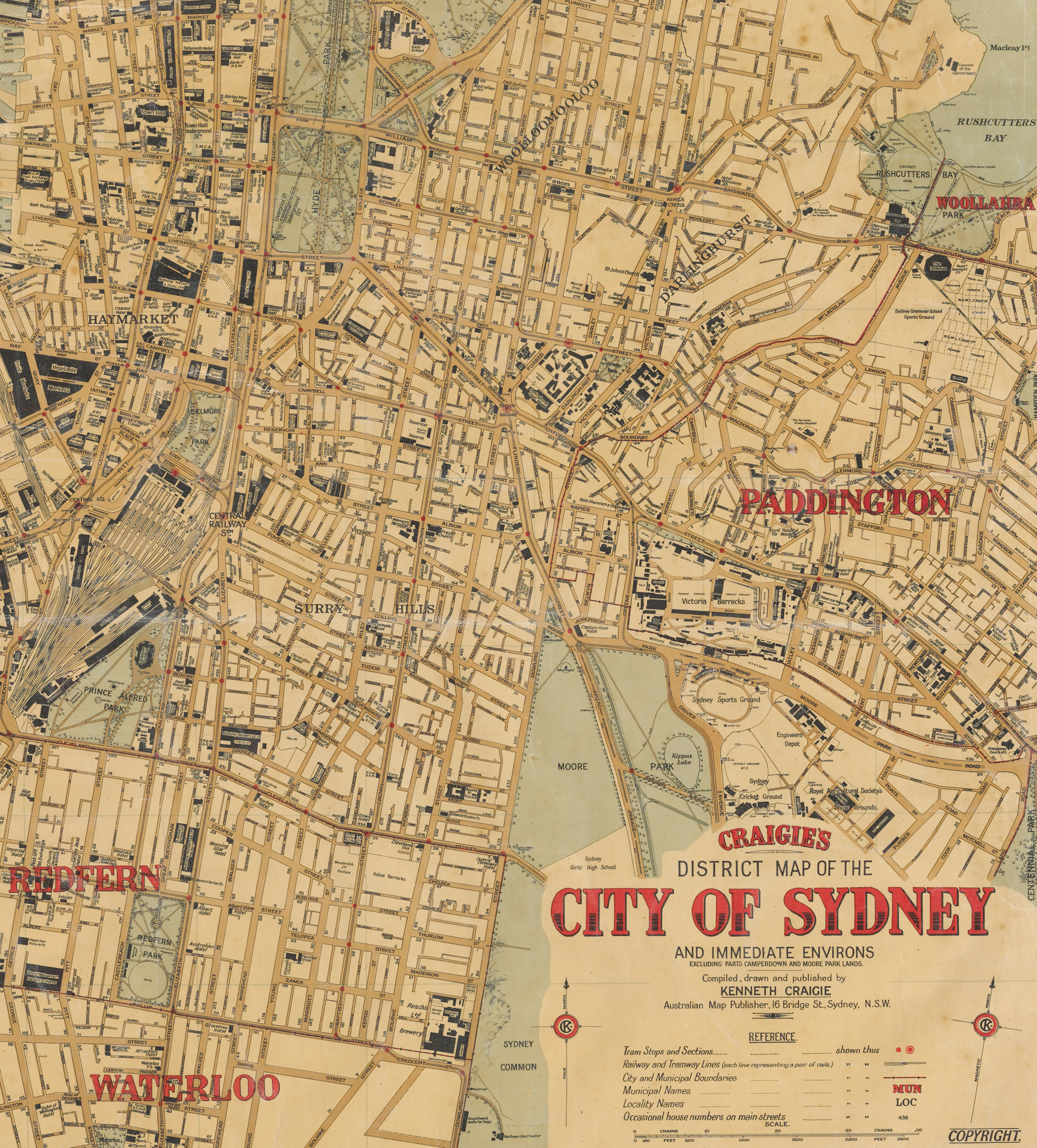 This is part of a map [SR Map 6235] dated c.1927 showing the areas the Razor Gangs ran and fought in during the 1920s and 1930s. See our Tilly Devine Gallery for more about the Razor Gang Wars, 1927-31 Map of the City of Sydney Dated: c.1927 Rights: We'd love to hear from you if you use our photos/documents.